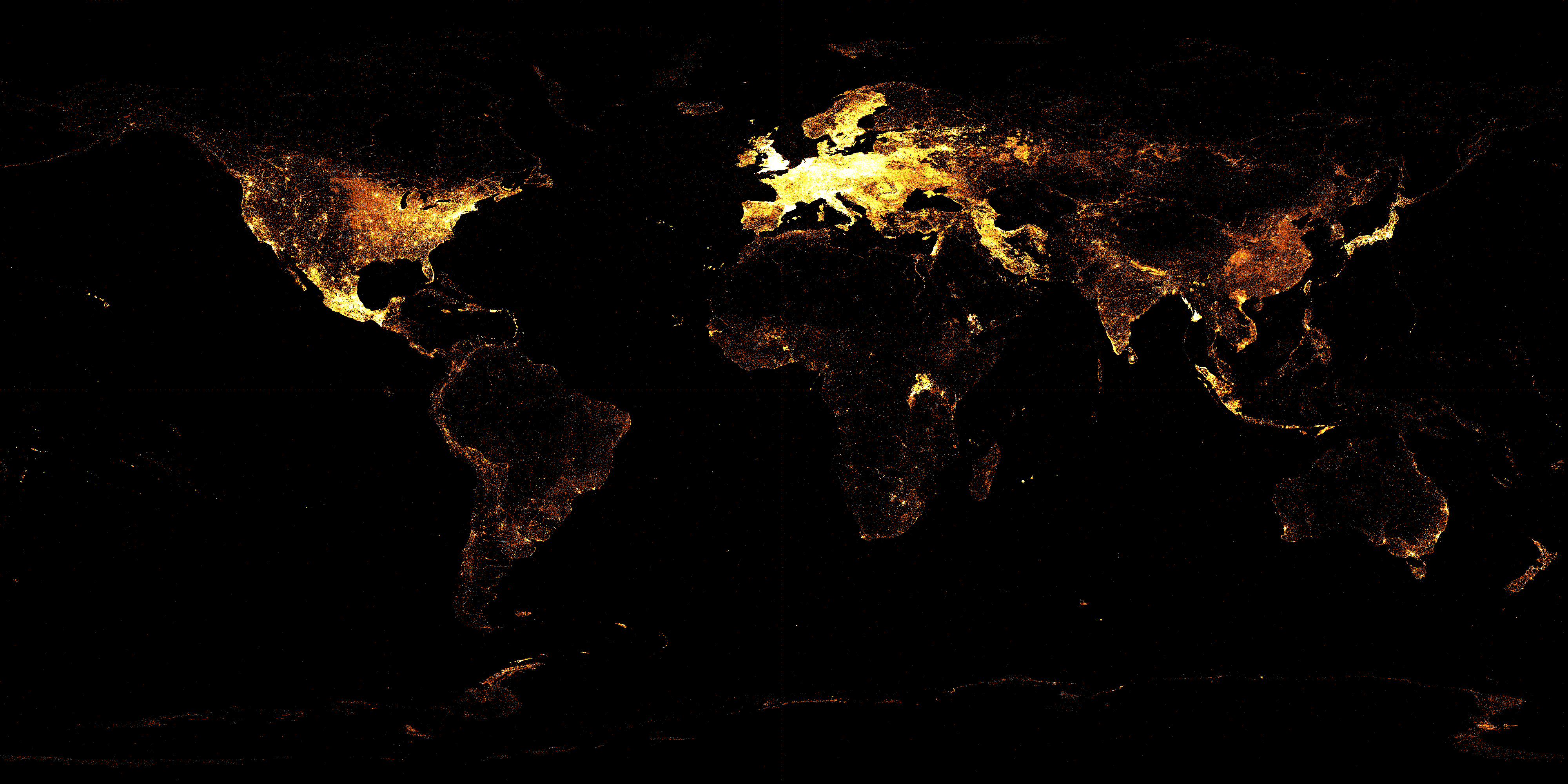 1 of a series of 5 Wikidata map images of varying sizes and details generated on 3 April 2016 using the JSON dump generated just before. The map shows a single pixel dot for every Wikidata item with a coordinate location. Created using